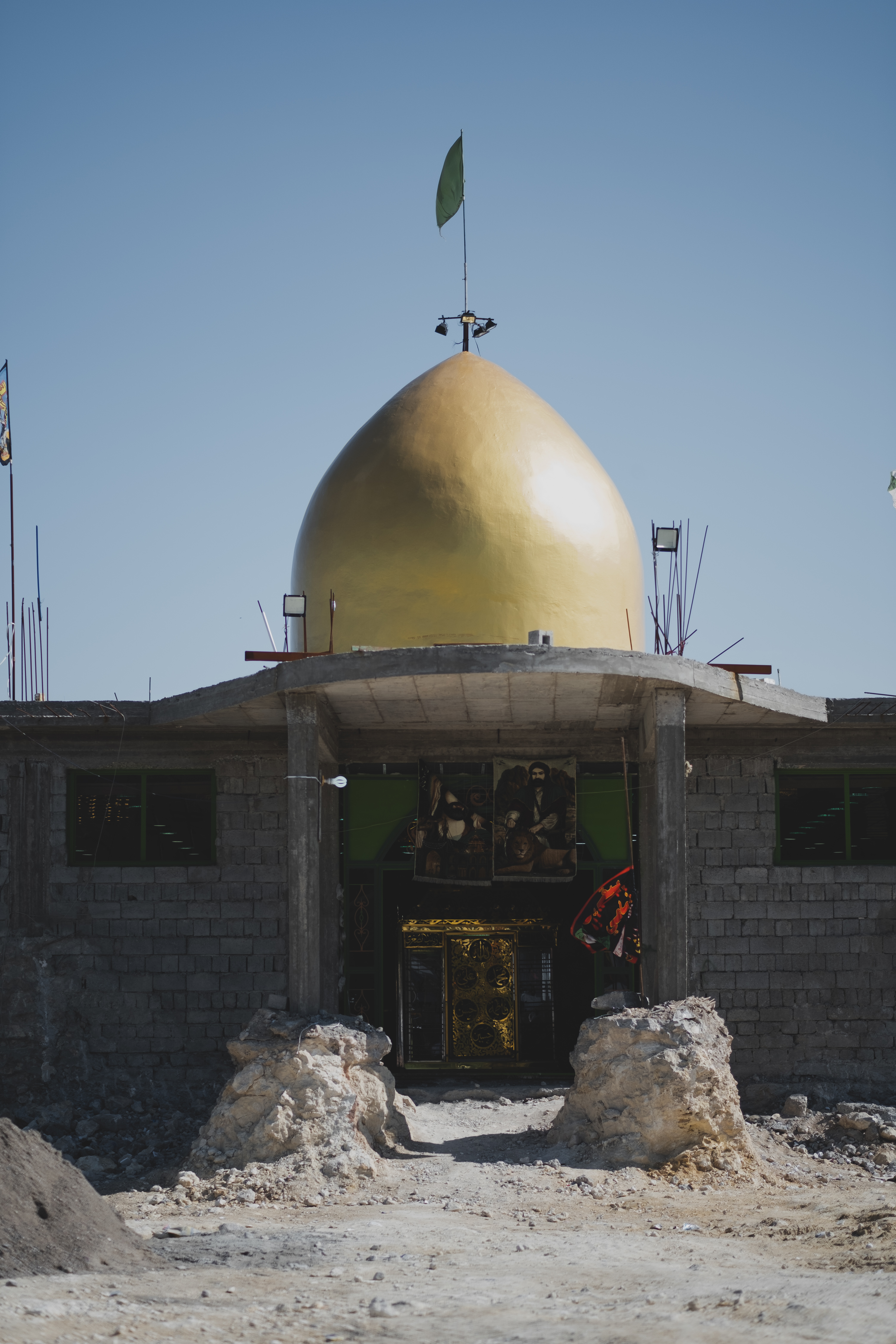 Views of the Shia shrine of Sayida Zeyneb in April of 2019 in Shingal, being reconstructed after destruction by the Islamic State